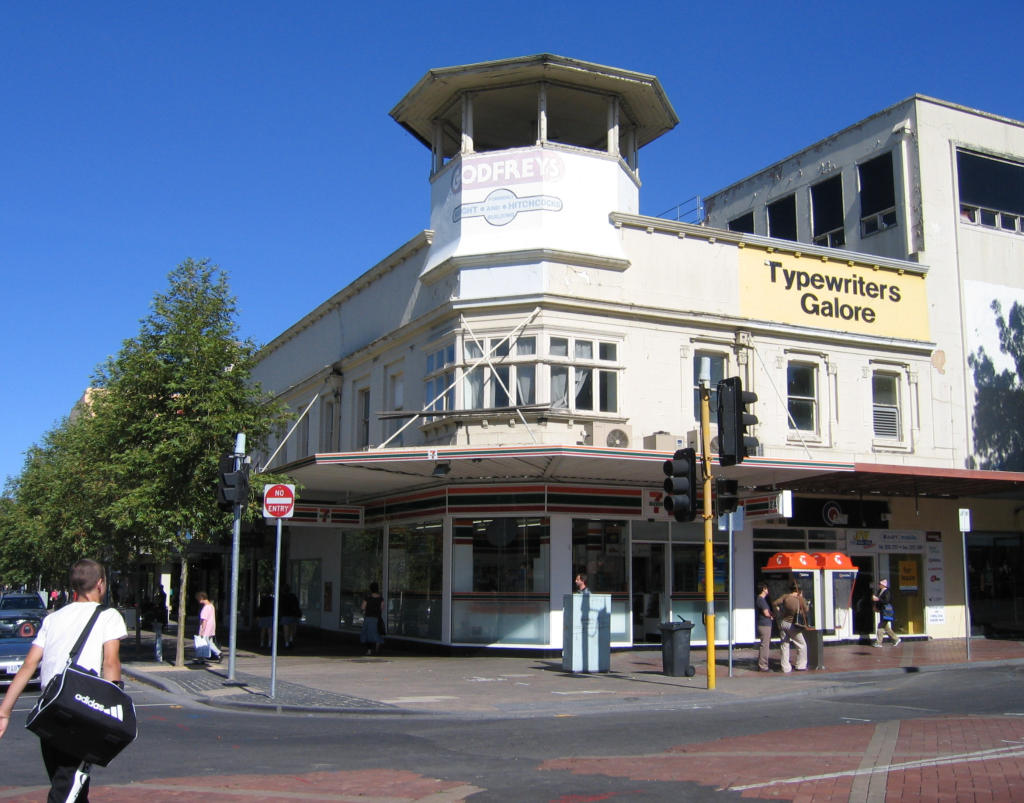 Former Bright and bright and Hitchcock's Department Store - Geelong, Victoria, Australia